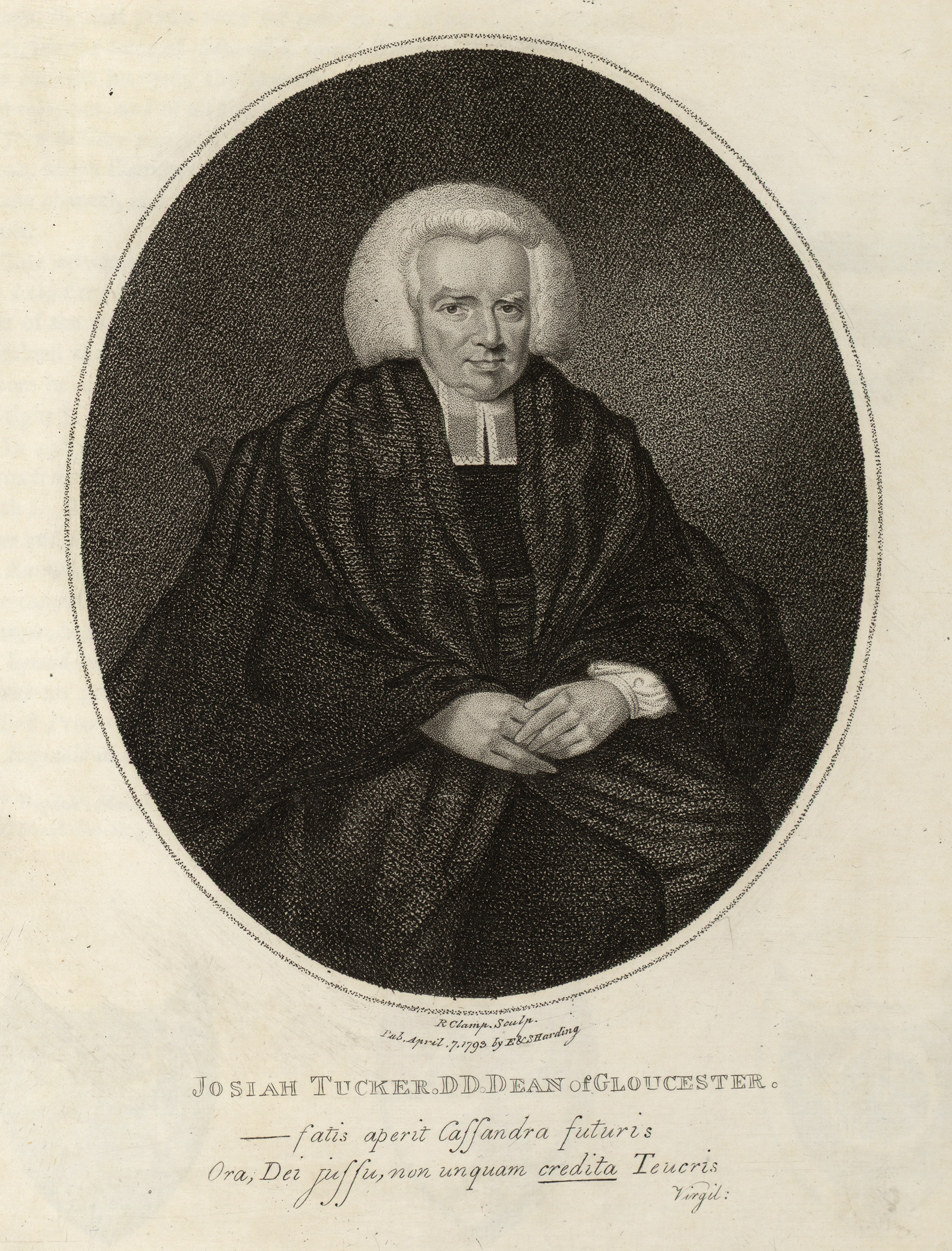 An image from a set of 8 extra-illustrated volumes of A tour in Wales by Thomas Pennant (1726-1798) that chronicle the three journeys he made through Wales between 1773 and 1776. These volumes are unique because they were compiled for Pennant's own library at Downing. This edition was produced in 1781. The volumes include a number of original drawings by Moses Griffiths, Ingleby and other well known artists of the period. Thomas Pennant (1726-1798)